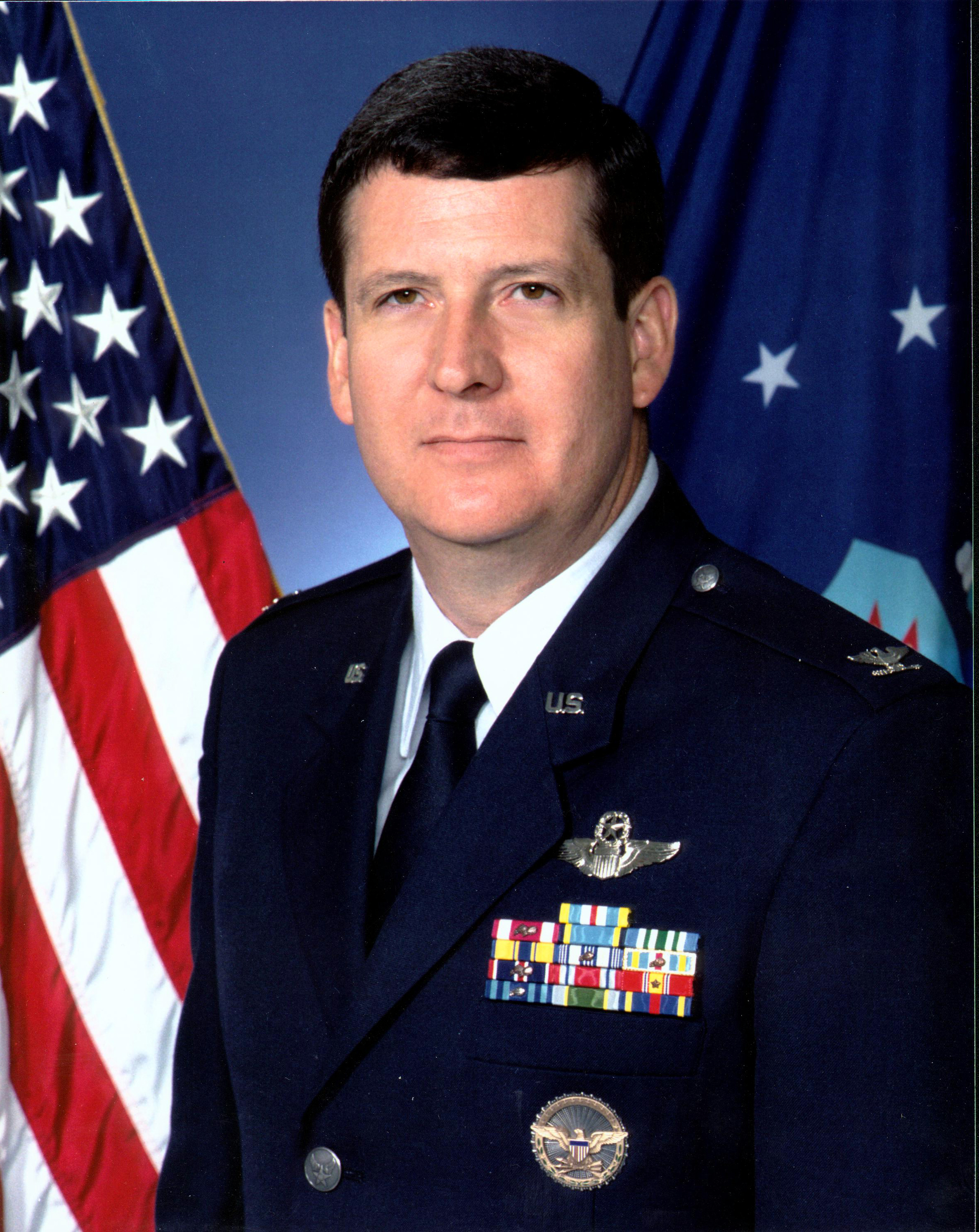 USAF Colonel Steve Cameron incoming commander for the 412th Test Wing in 2001.